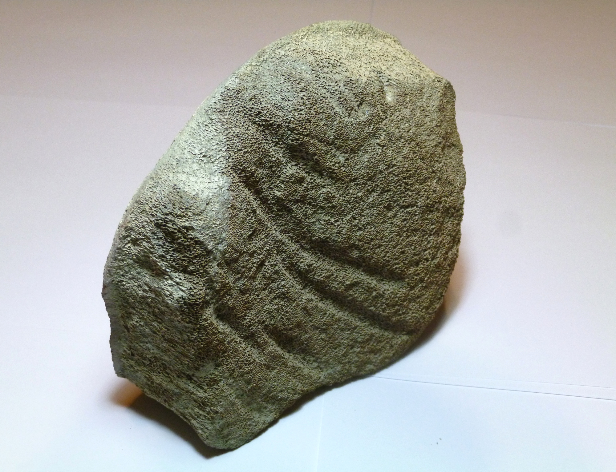 This image shows a whale vertebra that has been bitten in half by a Megalodon. The large gouge marks are visible on the vertebra confirming such an interaction.